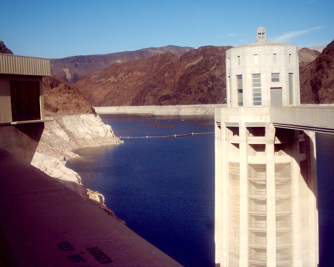 Lake Mead behind Hoover Dam, Water intake tower.